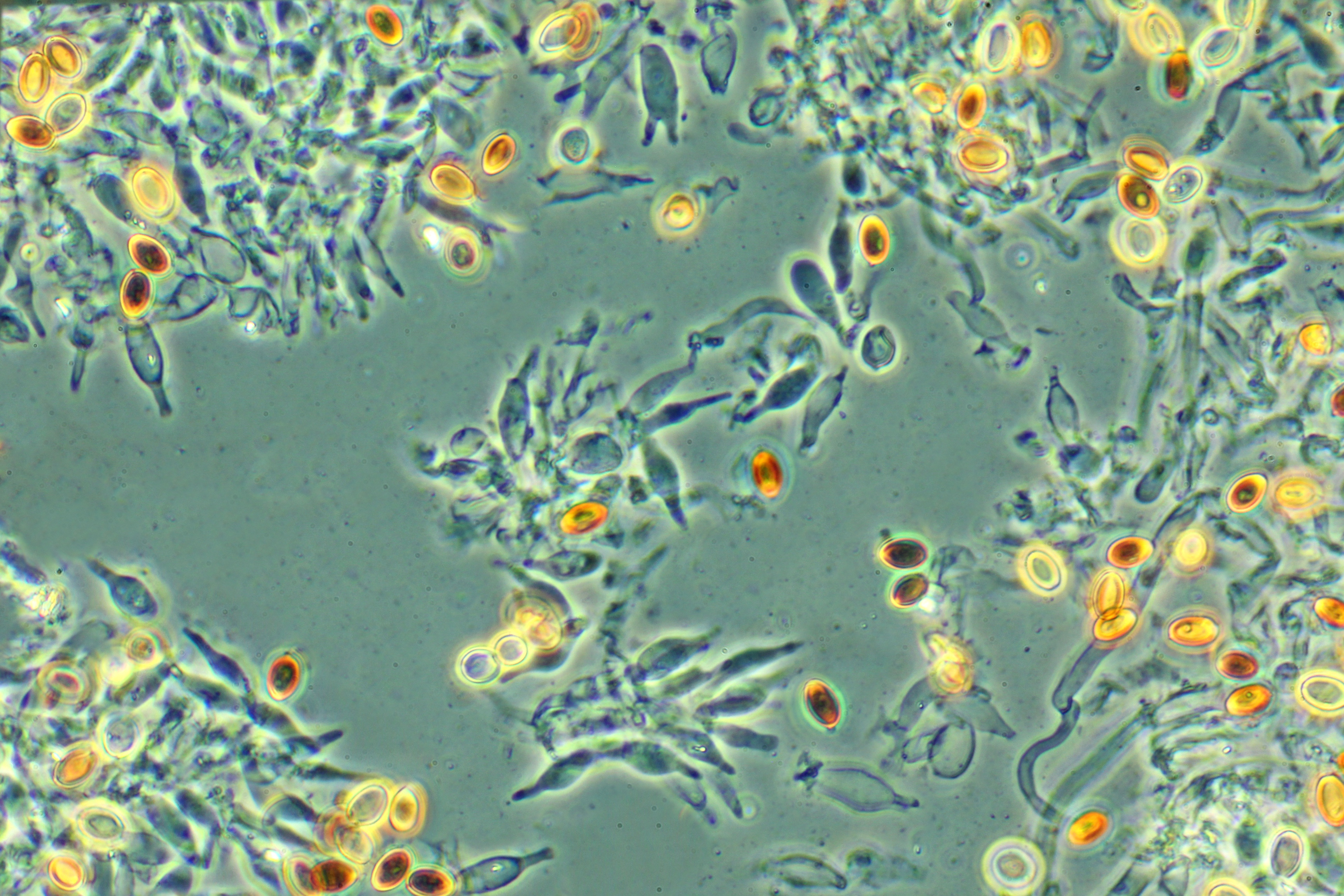 Psilocybe mexicana cheilocystidia and spores 400x with phase contrast illumination from San Agustin Loxicha, Oaxaca, Mexico. 07/29/12. From